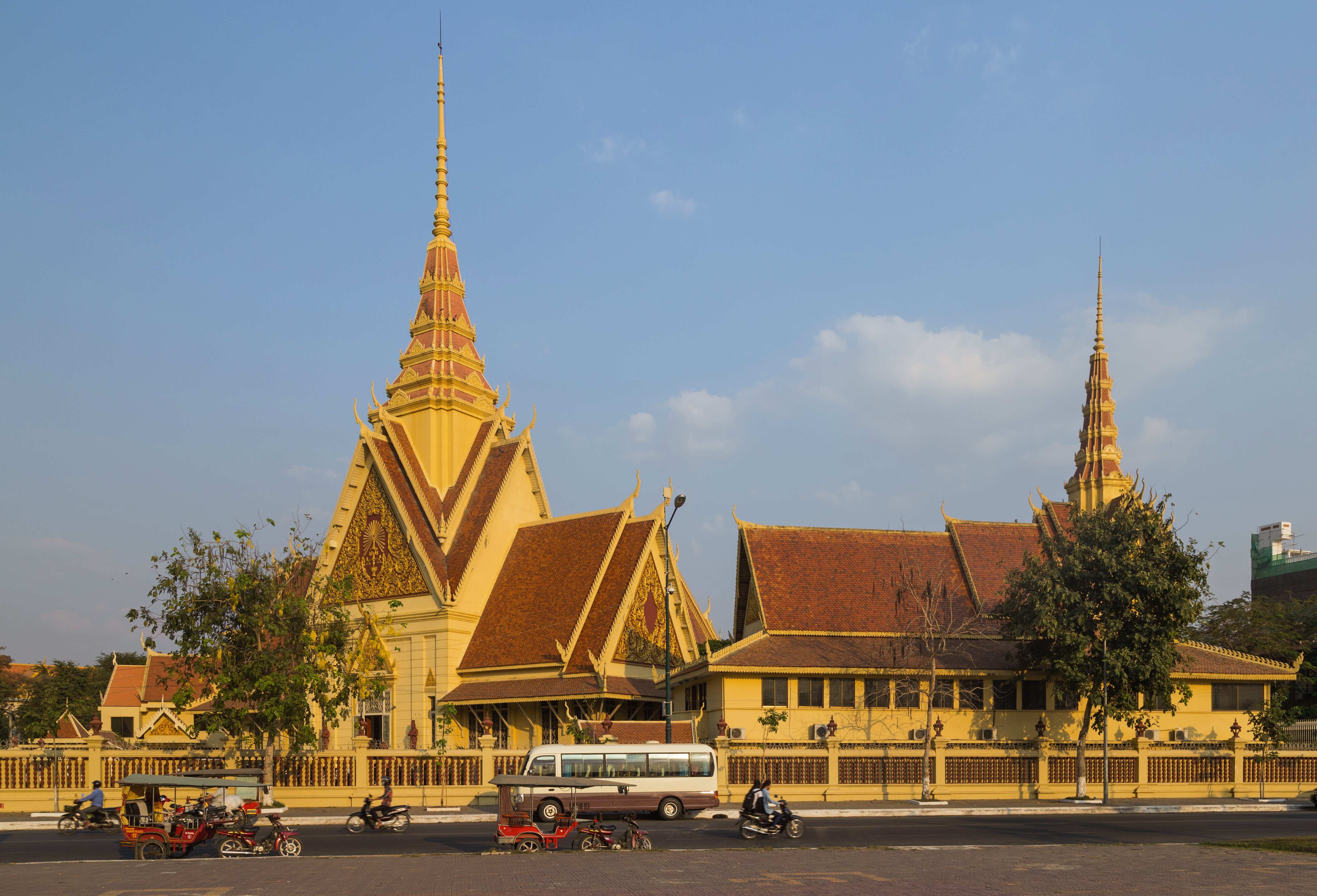 Courthouse. Phnom Penh, Cambodia.